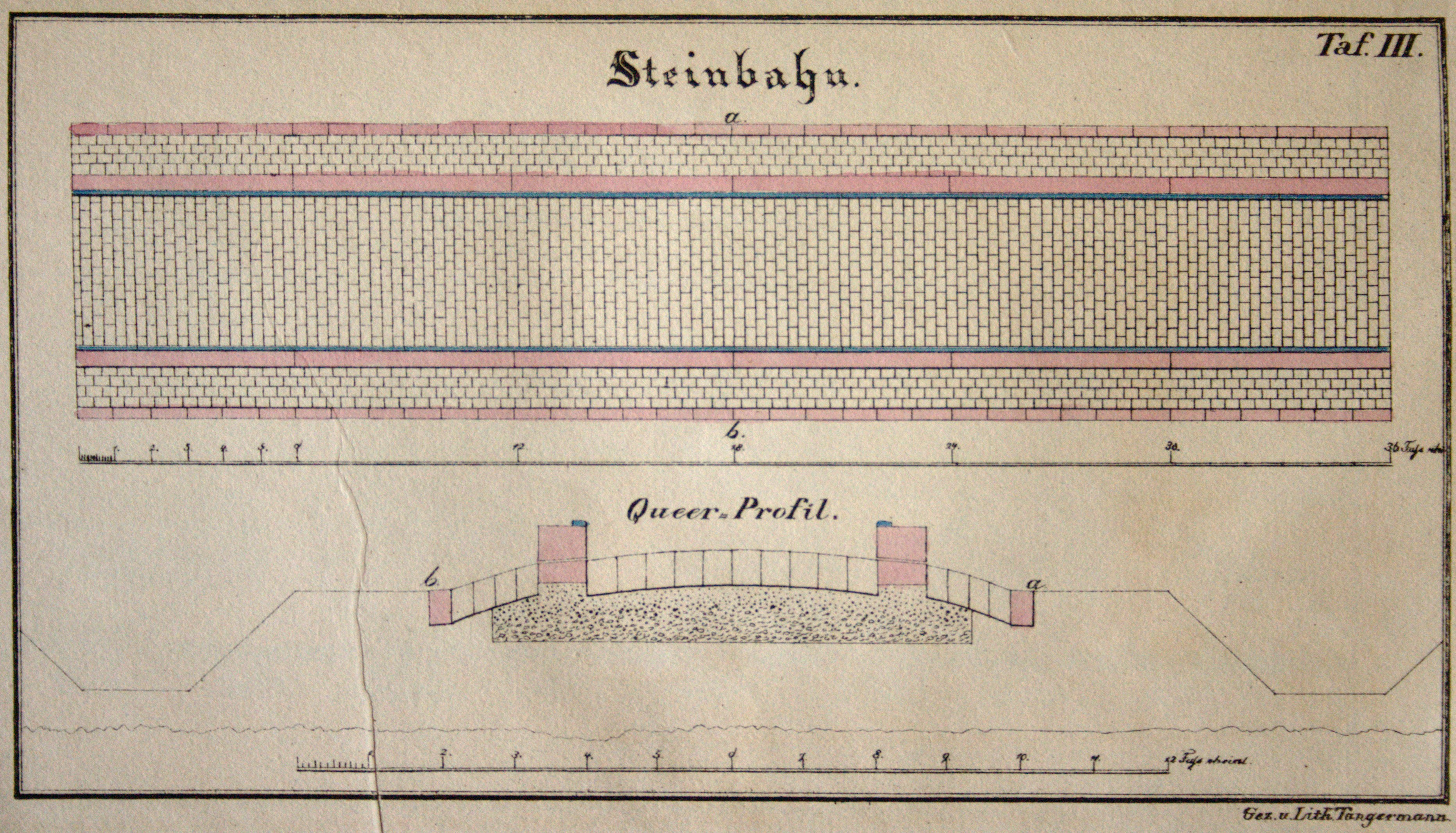 Stone railway. A method of laying tracks on a stone track bed. An early version of a concrete track foundation which is nowadays used for high speed railway lines. Measurements in feet.